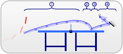 Diagram of the curve of a tabletennis ball with topspin, divided in 4 phases